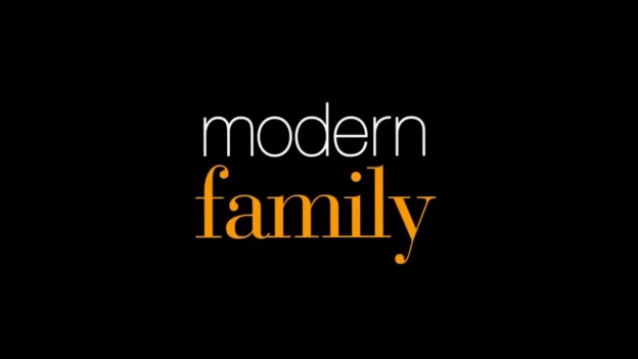 The title card from the television show Modern Family